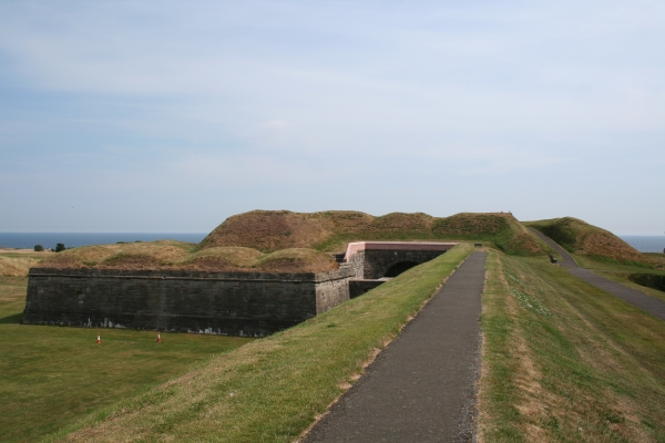 Berwick-upon-Tweed, Northumberland, Great Britain.